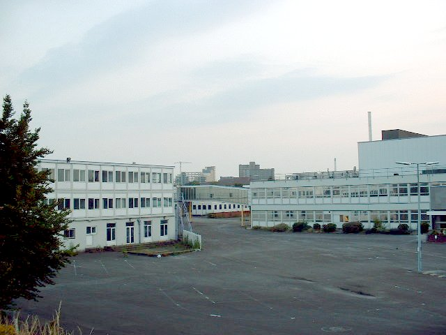 The former Meridian Television studios in Northam, Southampton